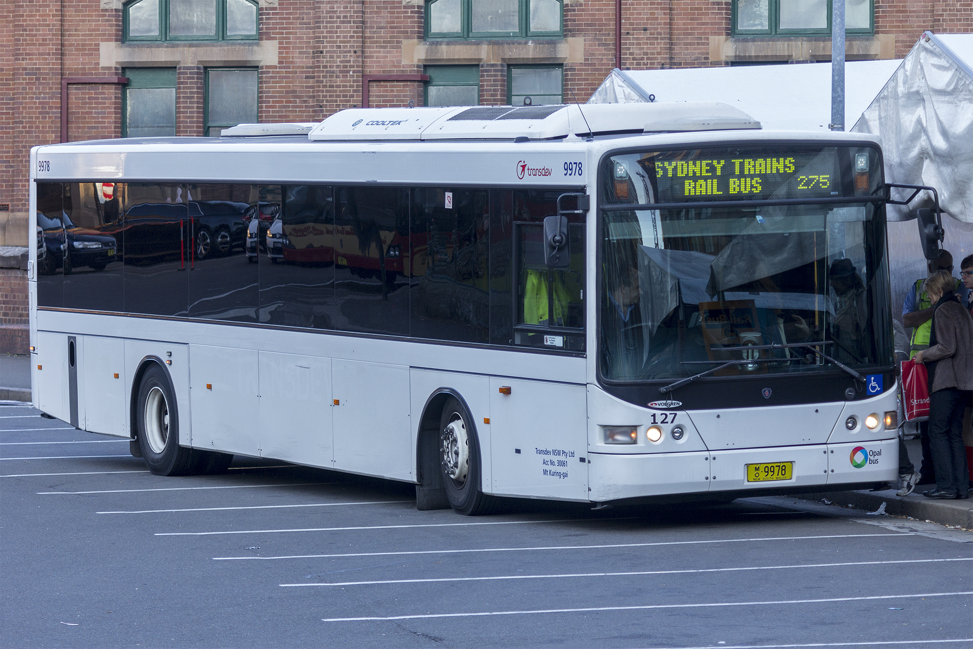 Transdev NSW (mo 9978) Volgren 'CR228L' bodied Scania K230UB at Central Station in Sydney.